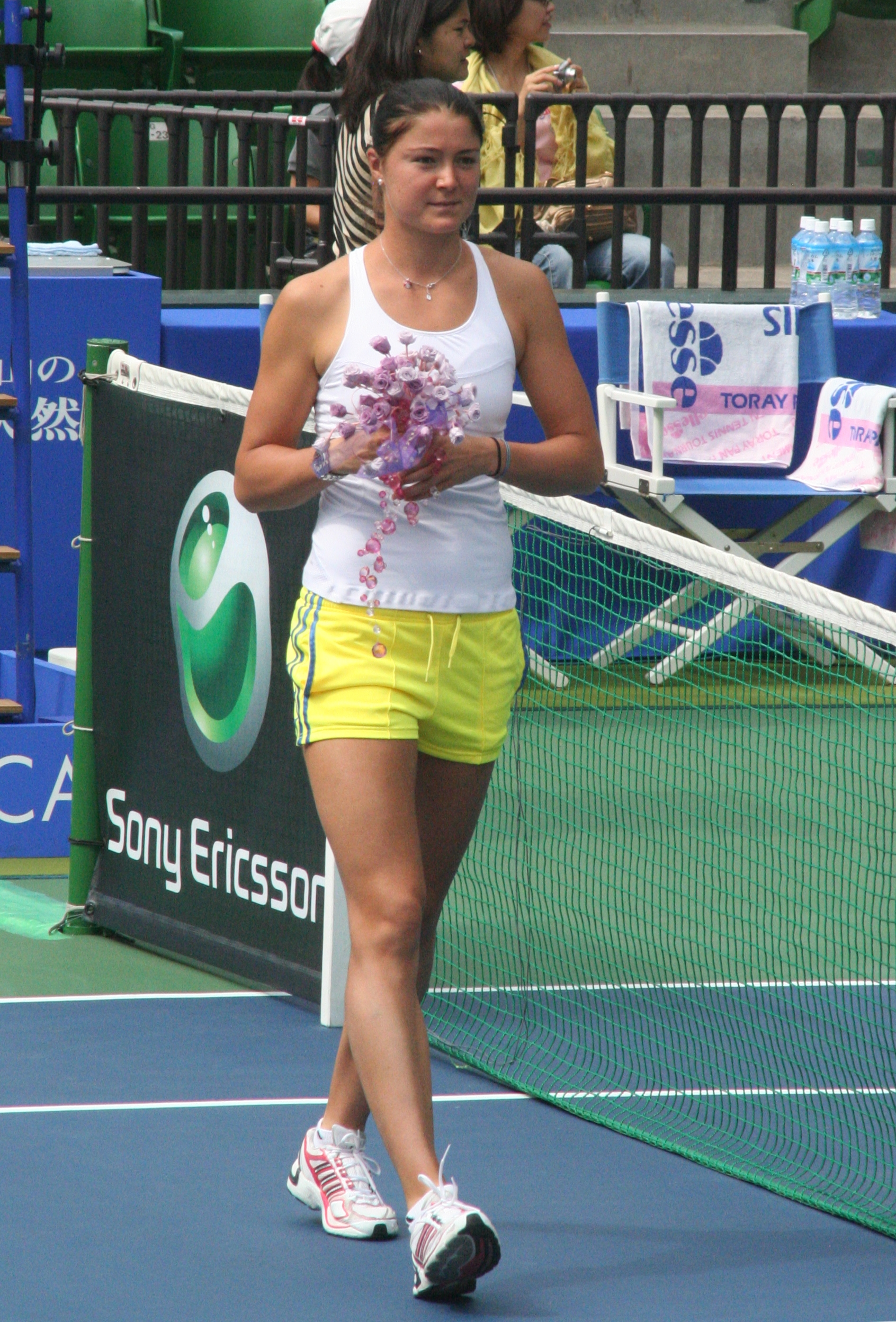 Russian tennis player Dinara Safina during the retirement ceremony for her colleague Ai Sugiyama on the opening day of the Toray Pan Pacific Open 2009 in Tokyo.